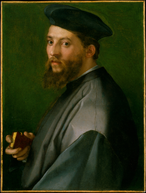 As the sitter seems to be an ecclesiastic, the picture may be the "natural-seeming and very beautiful" portrait of a Canon of Pisa Cathedral that Vasari describes. The canon, a close friend of Sarto's, may have helped the artist secure his last commissions